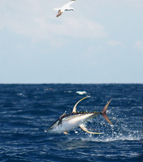 Yellowfin tuna, Thunnus albacares, diving